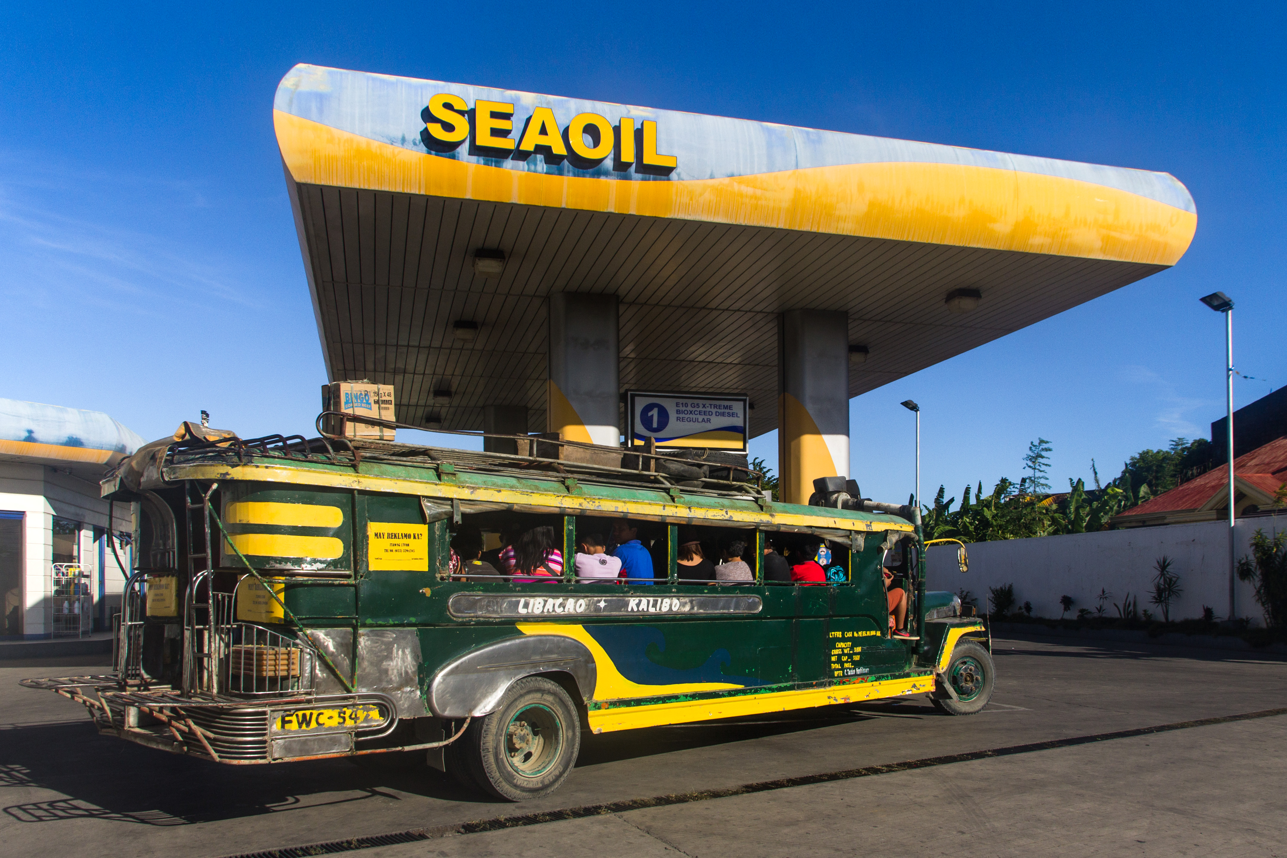 A gas station of SeaOil Philippines in Kalibo, Aklan.